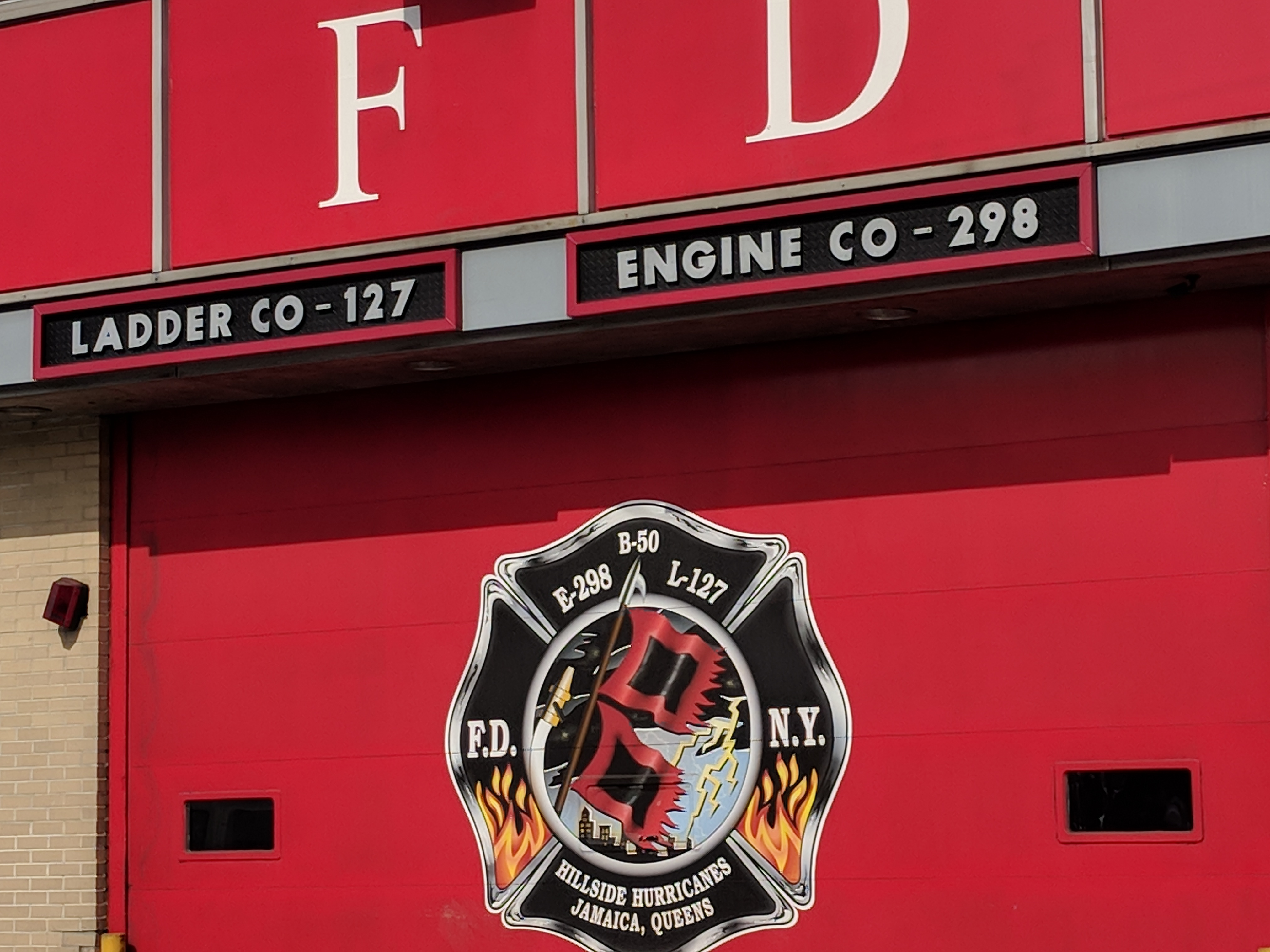 FDNY engine ladder co on hillside, Sutphin blvd-180st